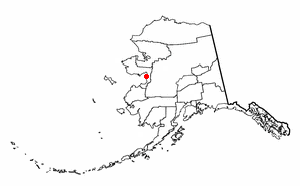 Adapted from Wikipedia's AK borough maps by Seth Ilys.